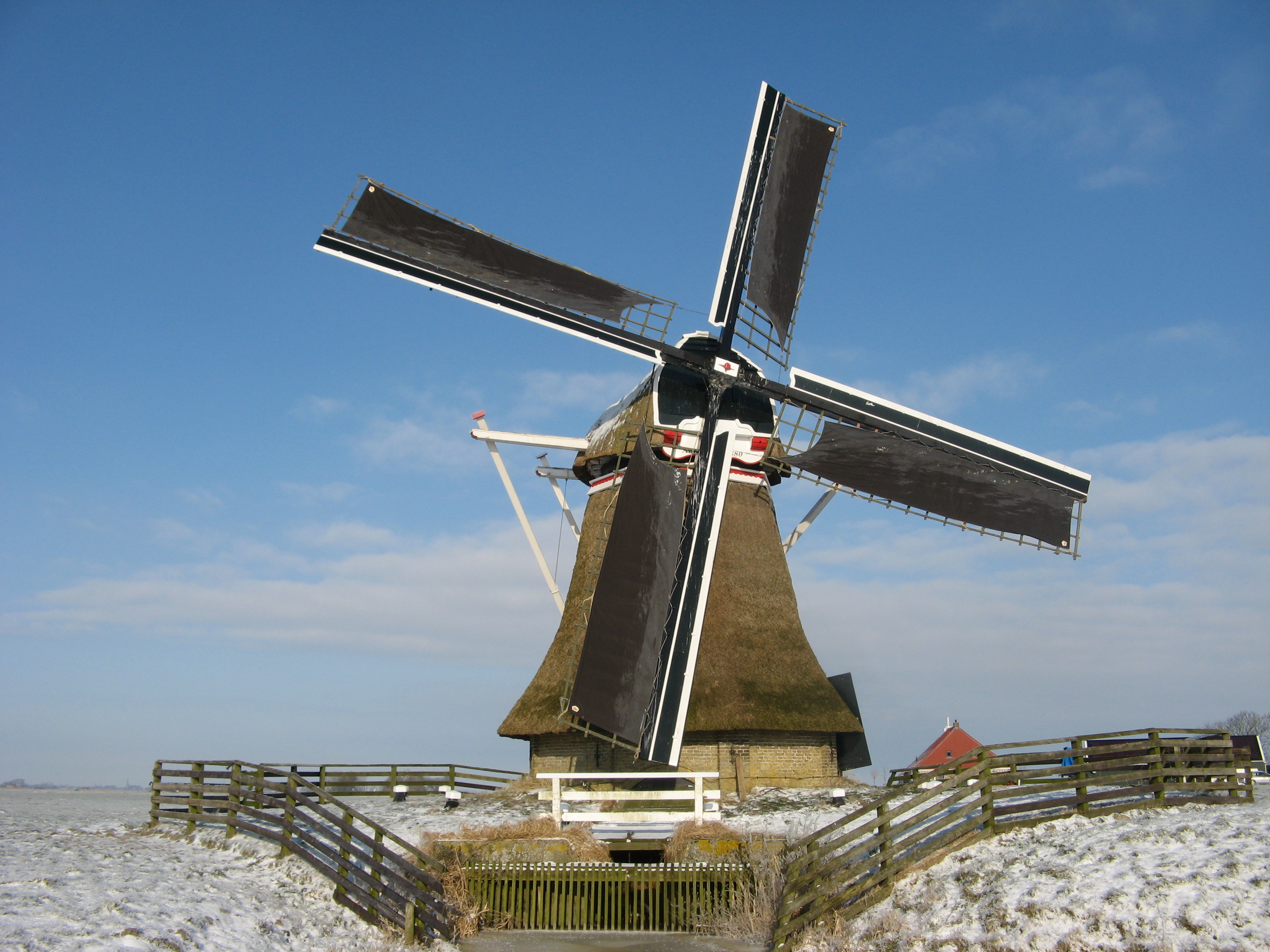 Steenhuistermolen winter 2012